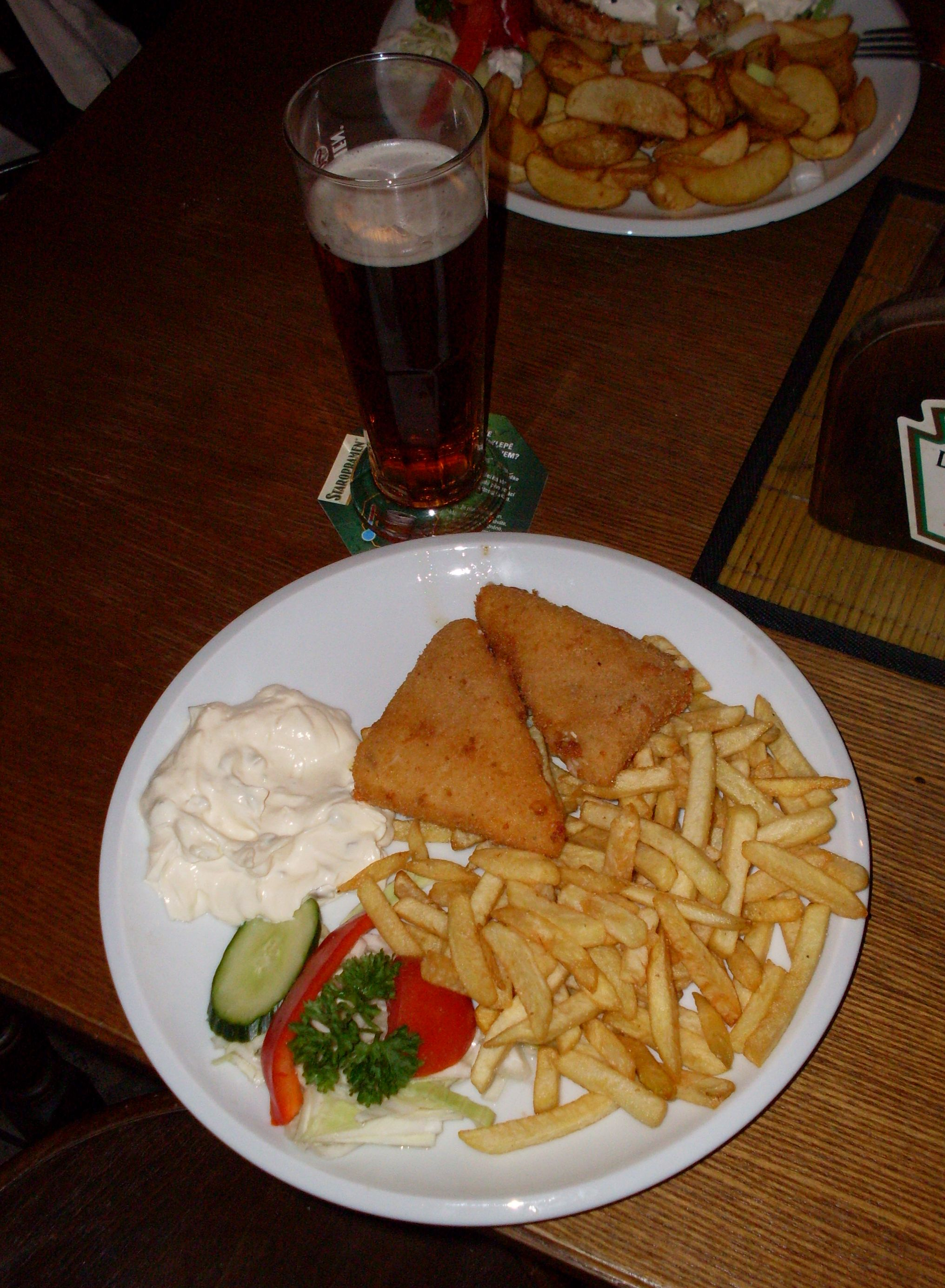 Fried cheese with tartar sauce, french fries, and beer in the Czech restaurant